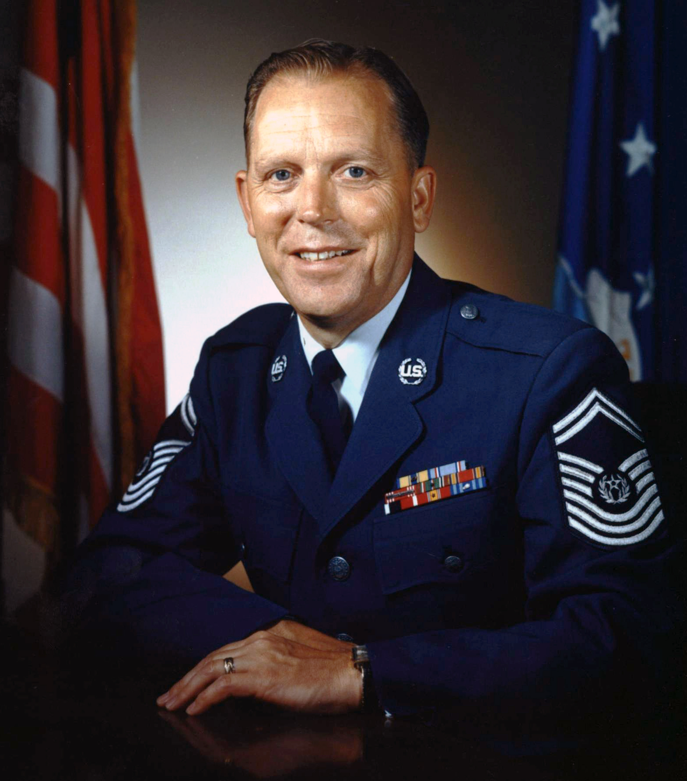 Richard D. Kisling, 3rd CMSAF